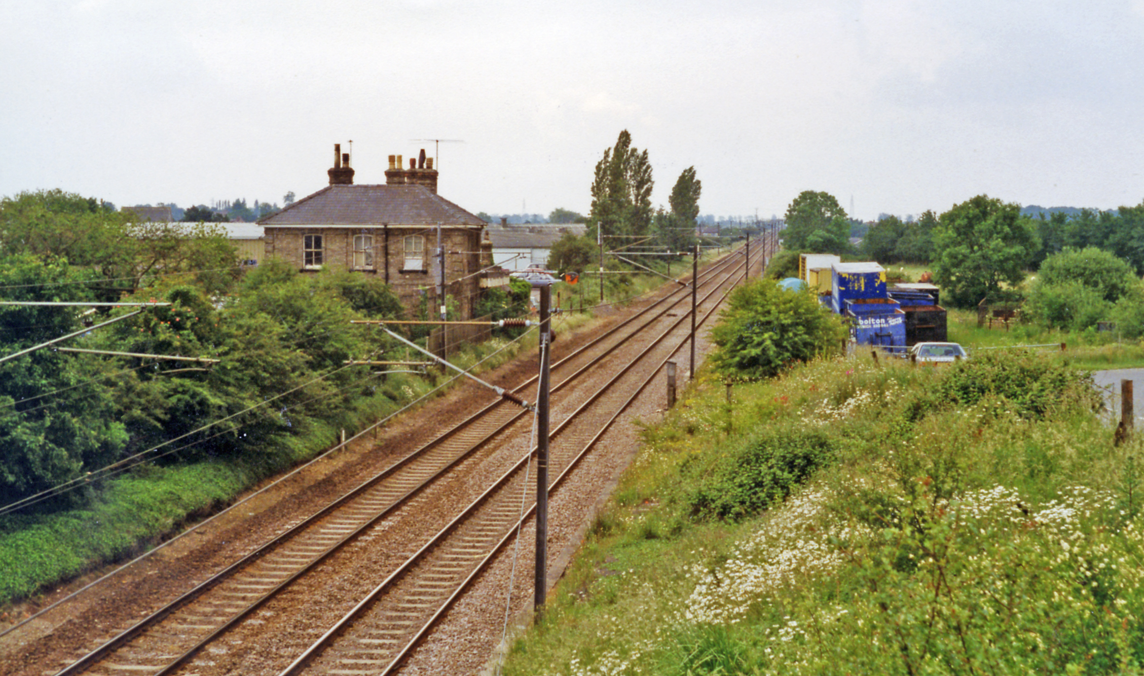 Site of Finningham station. View southward, towards Ipswich and London: ex-GER London Liverpool Street - Ipswich - Norwich main line, electrified in 1986. The station was closed 7/11/66.